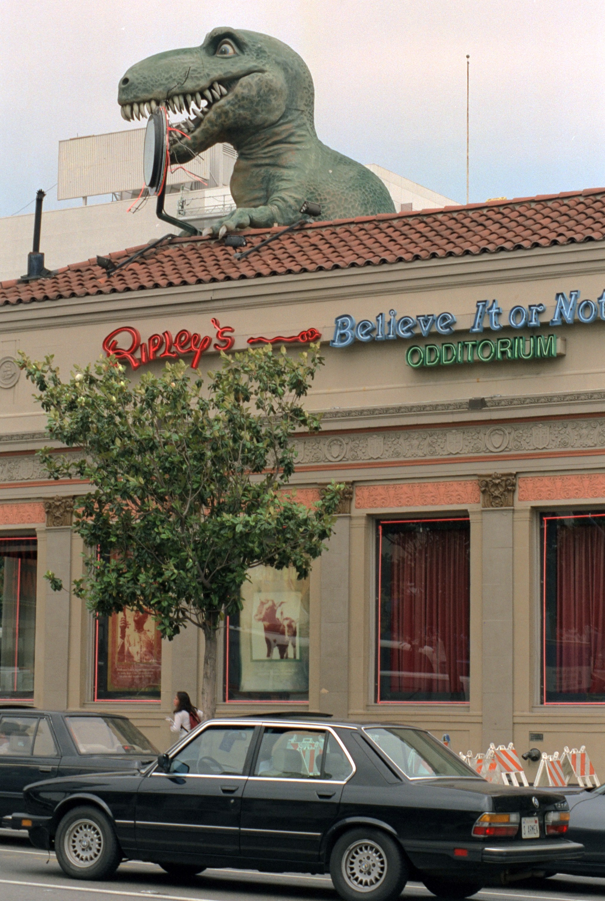 Ripley's Believe it or not Odditorium in Hollywood, Los Angeles, USA